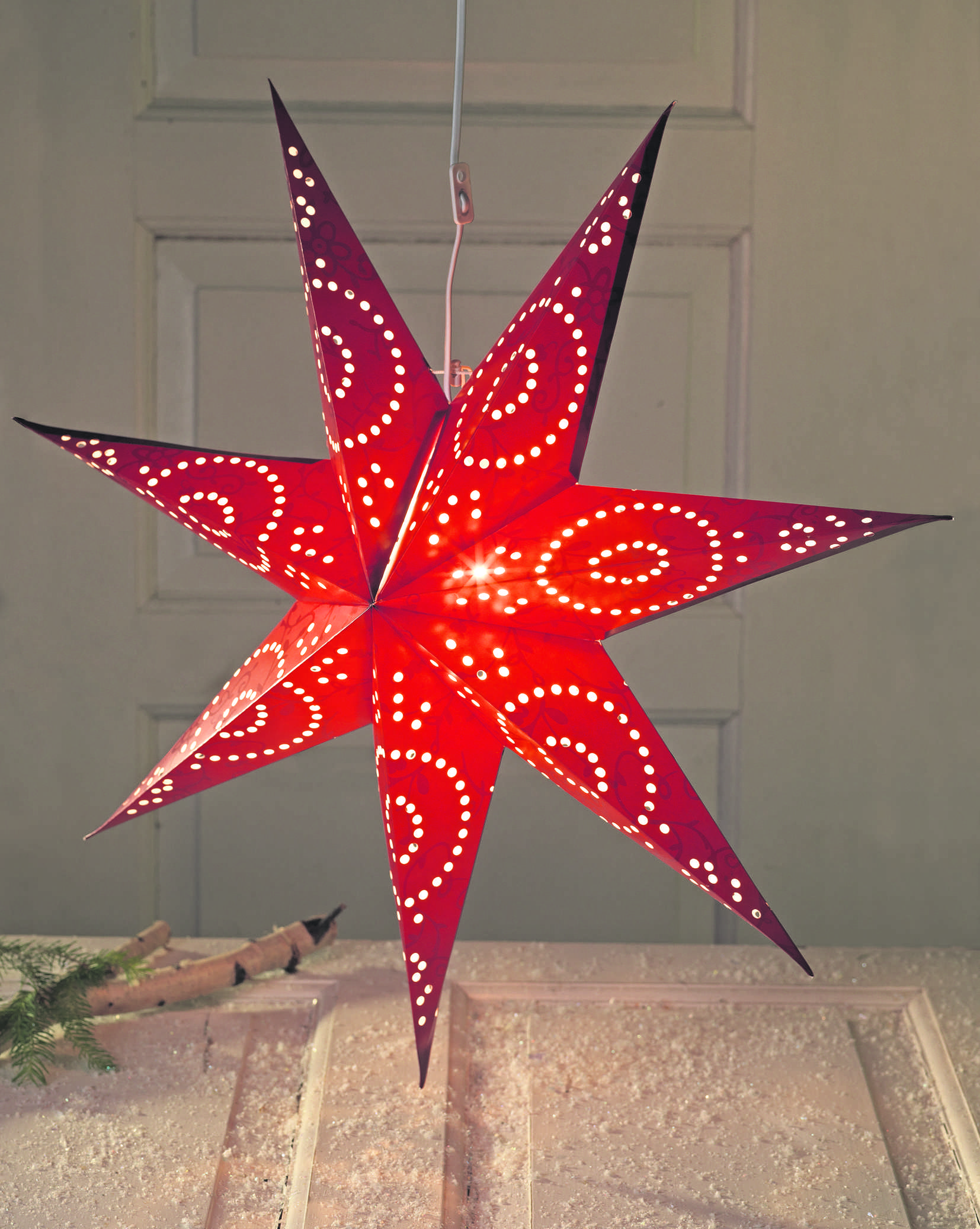 A Christmas star in Sweden.